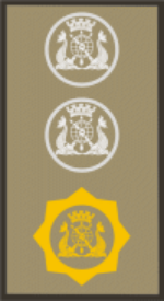 Municipal Guard Sub Inspector Insignia, Rio de Janeiro Municipal Guard